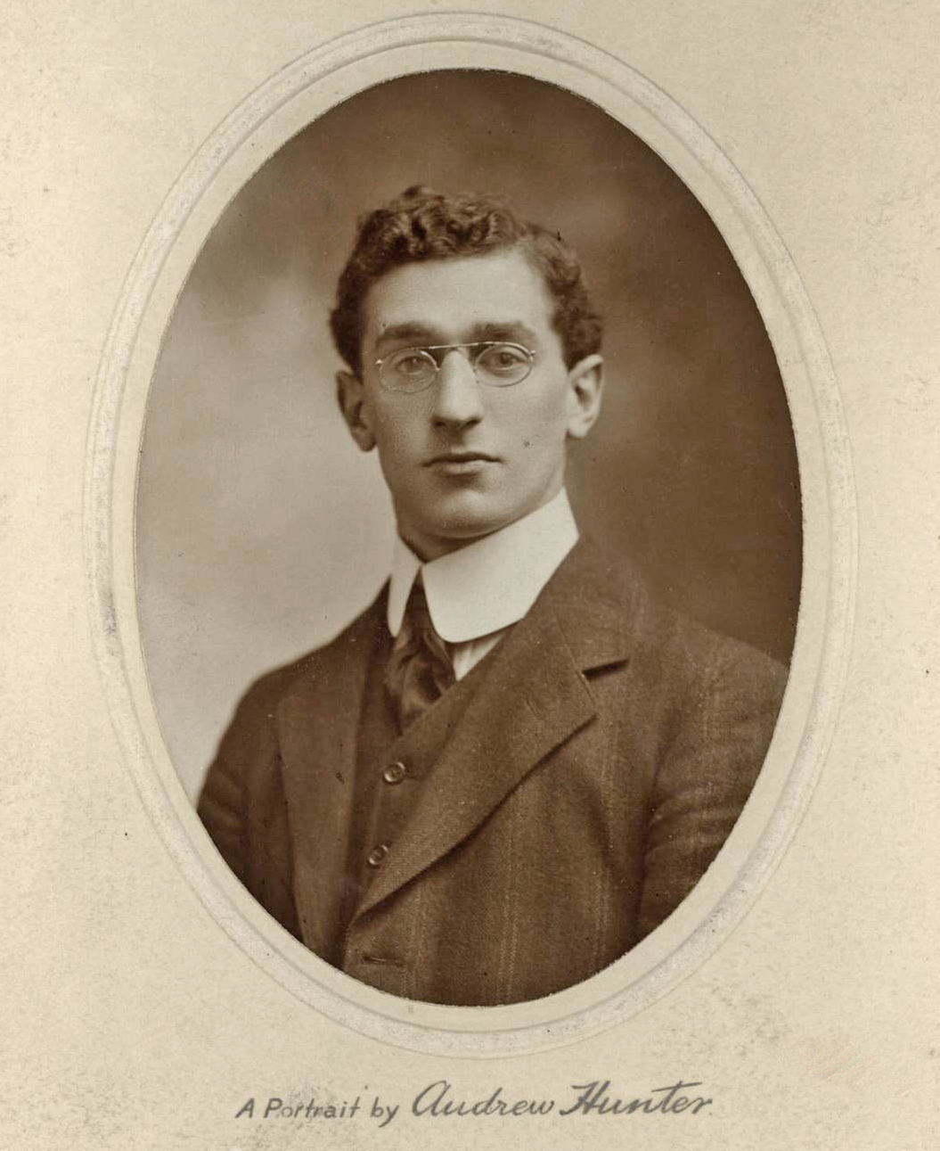 Picture of Leon Simon